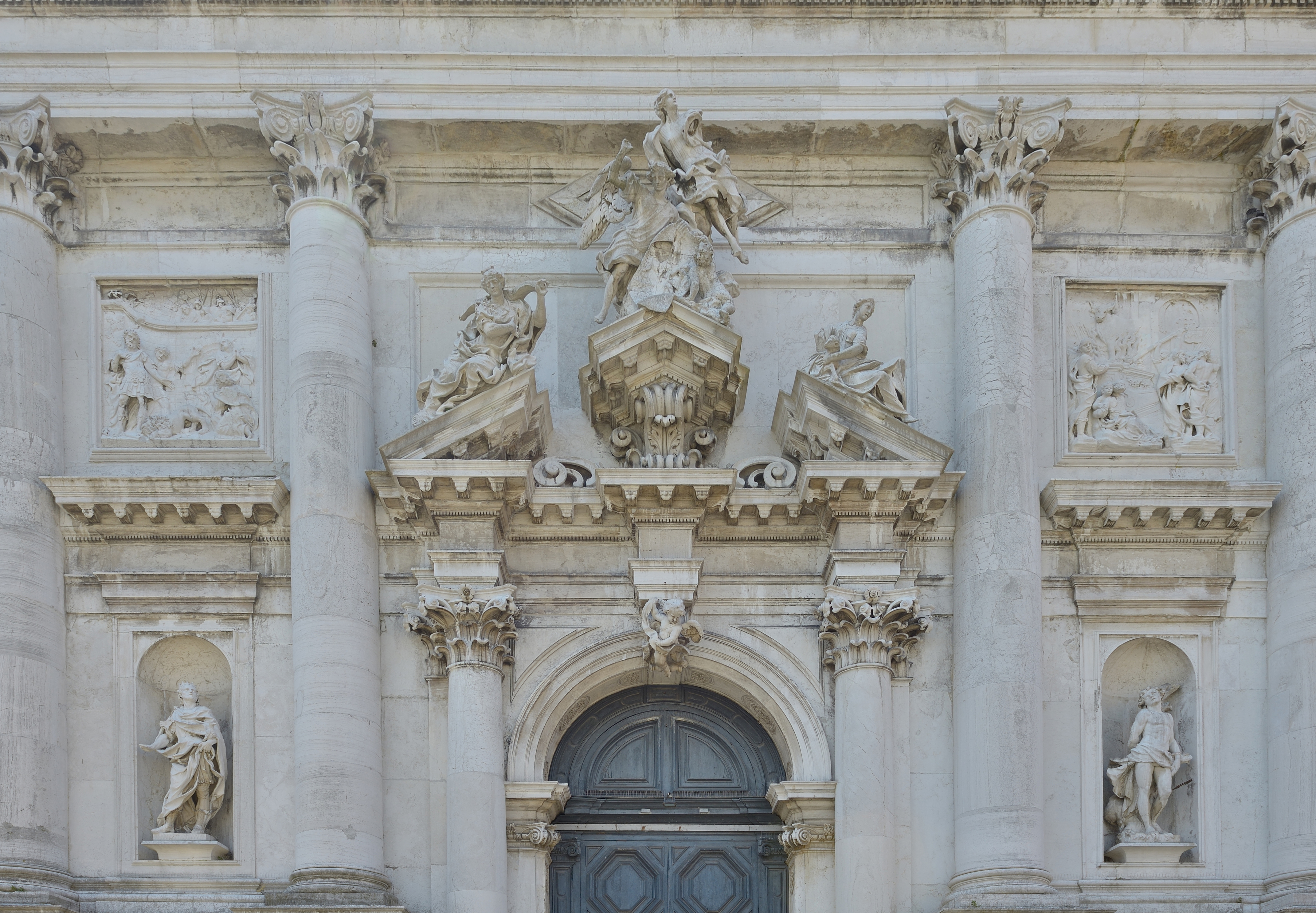 Detail of de facade of the "San Stae" church in Venice.